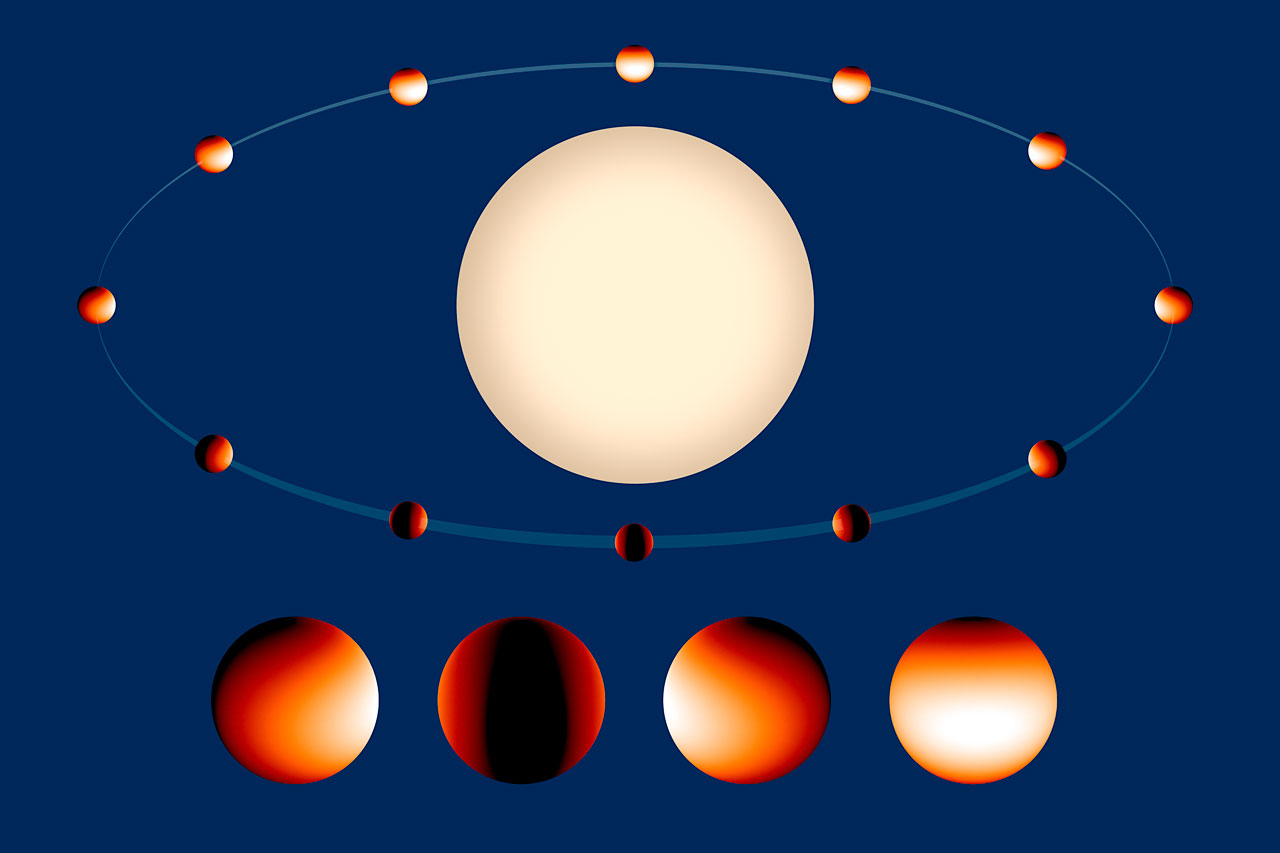 In this artist’s illustration the Jupiter-sized planet WASP-43b orbits its parent star in one of the closest orbits ever measured for an exoplanet of its size — with a year lasting just 19 hours. The planet is tidally locked, meaning it keeps one hemisphere facing the star, just as the Moon keeps one face toward Earth. The colour scale on the planet represents the temperature across its atmosphere. This is based on data from a recent study that mapped the temperature of WASP-43b in more detail than has been done for any other exoplanet.